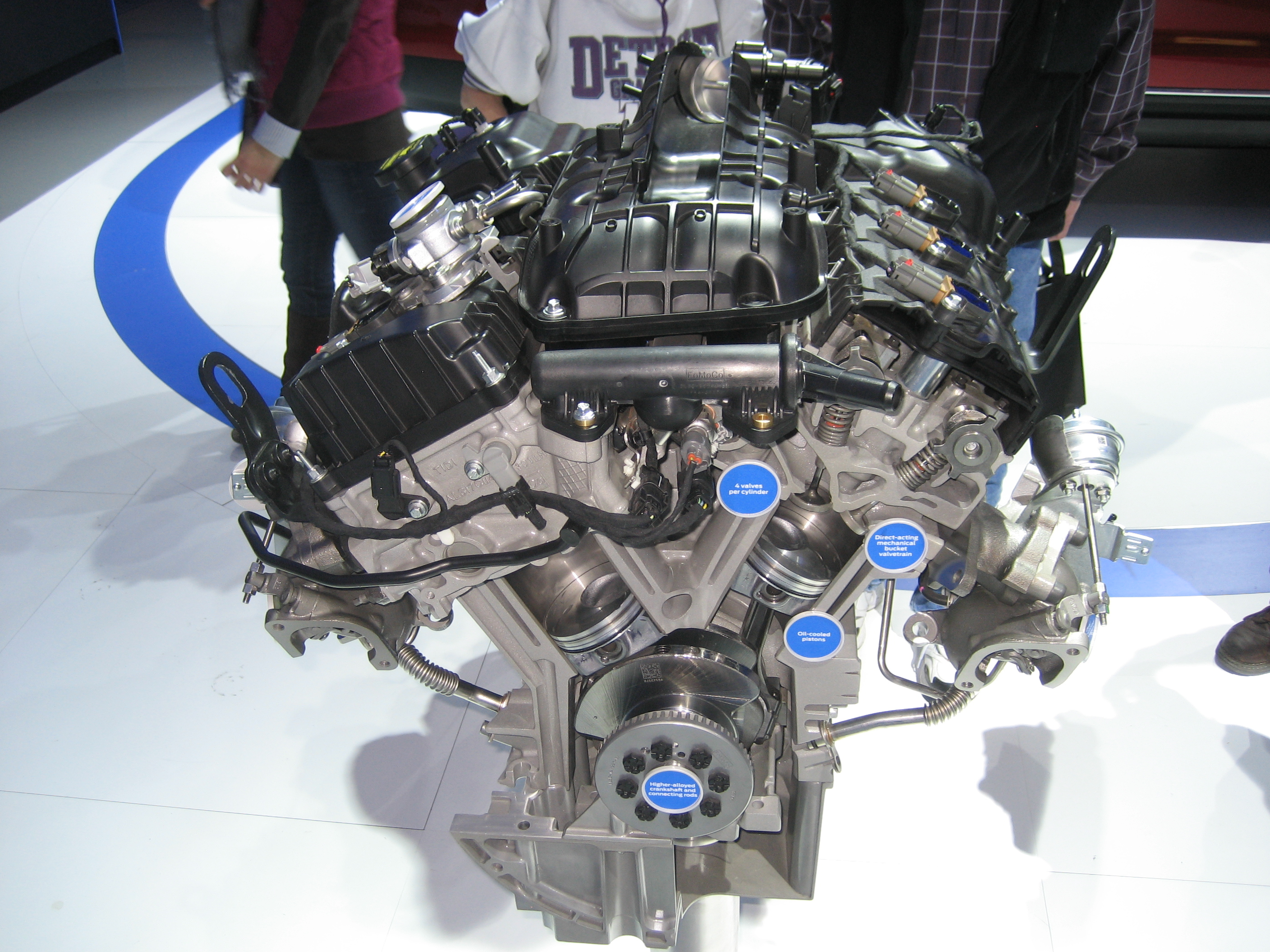 3.5 EcoBoost demo, rear.